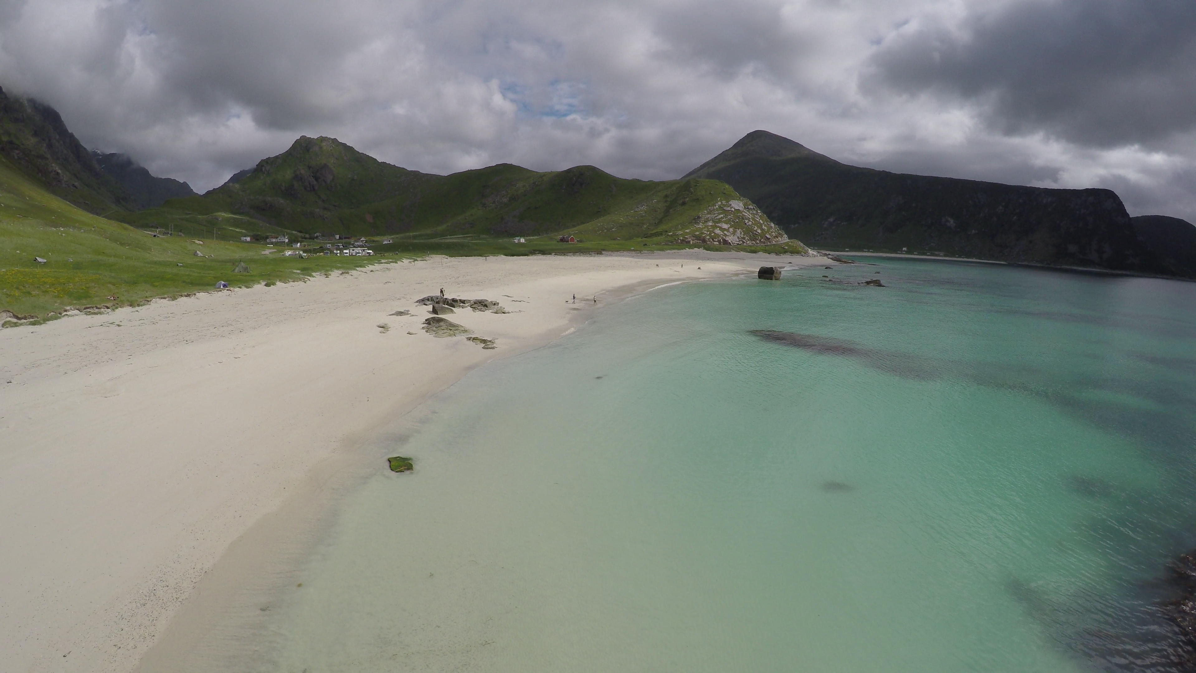 The white beach Hauklandstranda in Vestvågøy, Lofoten, Norway seen from a drone in june 2016